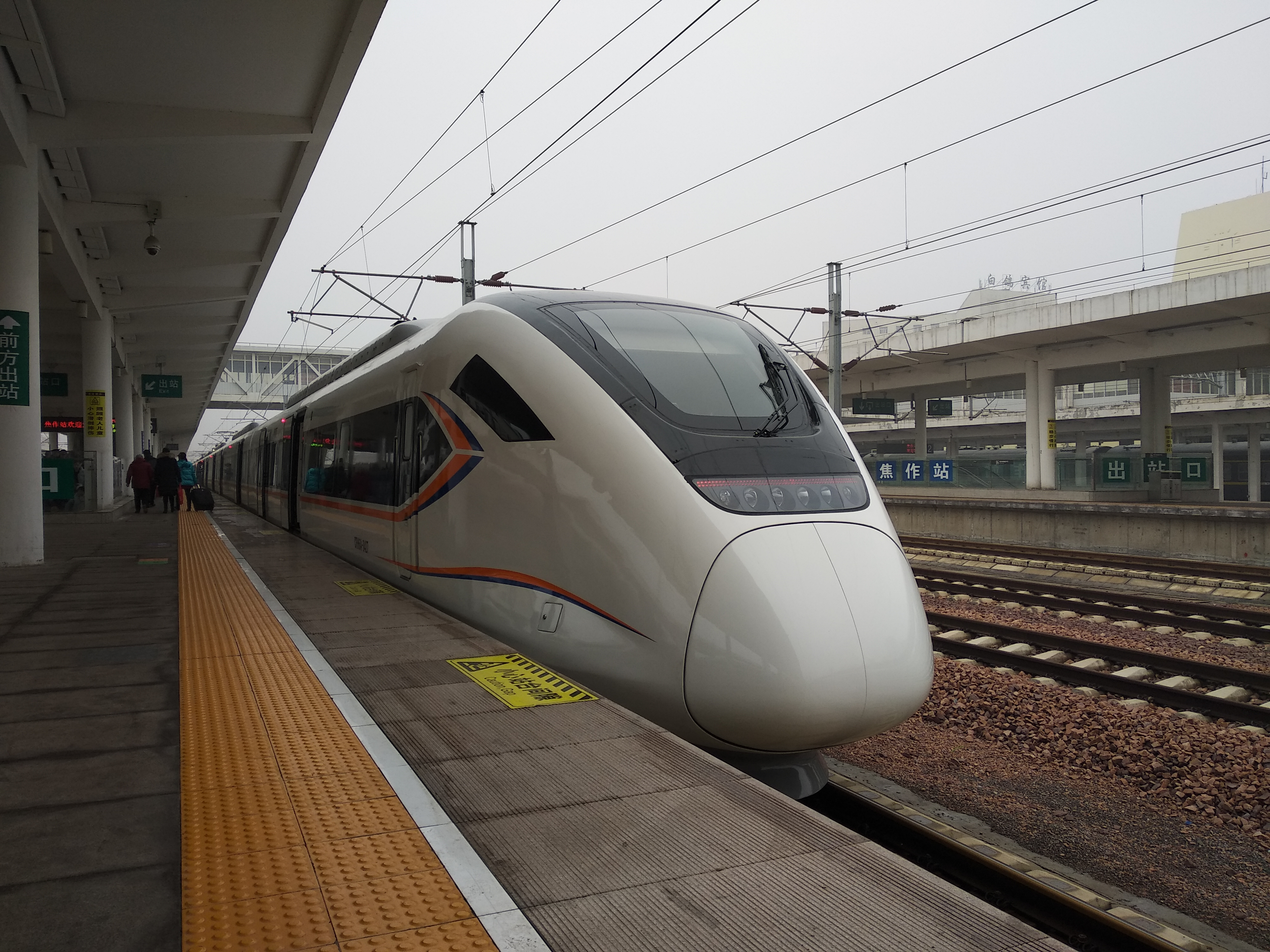 C2903 to Zhengzhou. All those CRH2As that used to be operated on the Zhengzhou-Xuchang and Zhengzhou-Jiaozuo Intercity Railways have been replaced by CRH6As since the first half of February 2018. And those on Zhengzhou-Kaifeng Intercity Railway have also been switched since March 6, 2018.